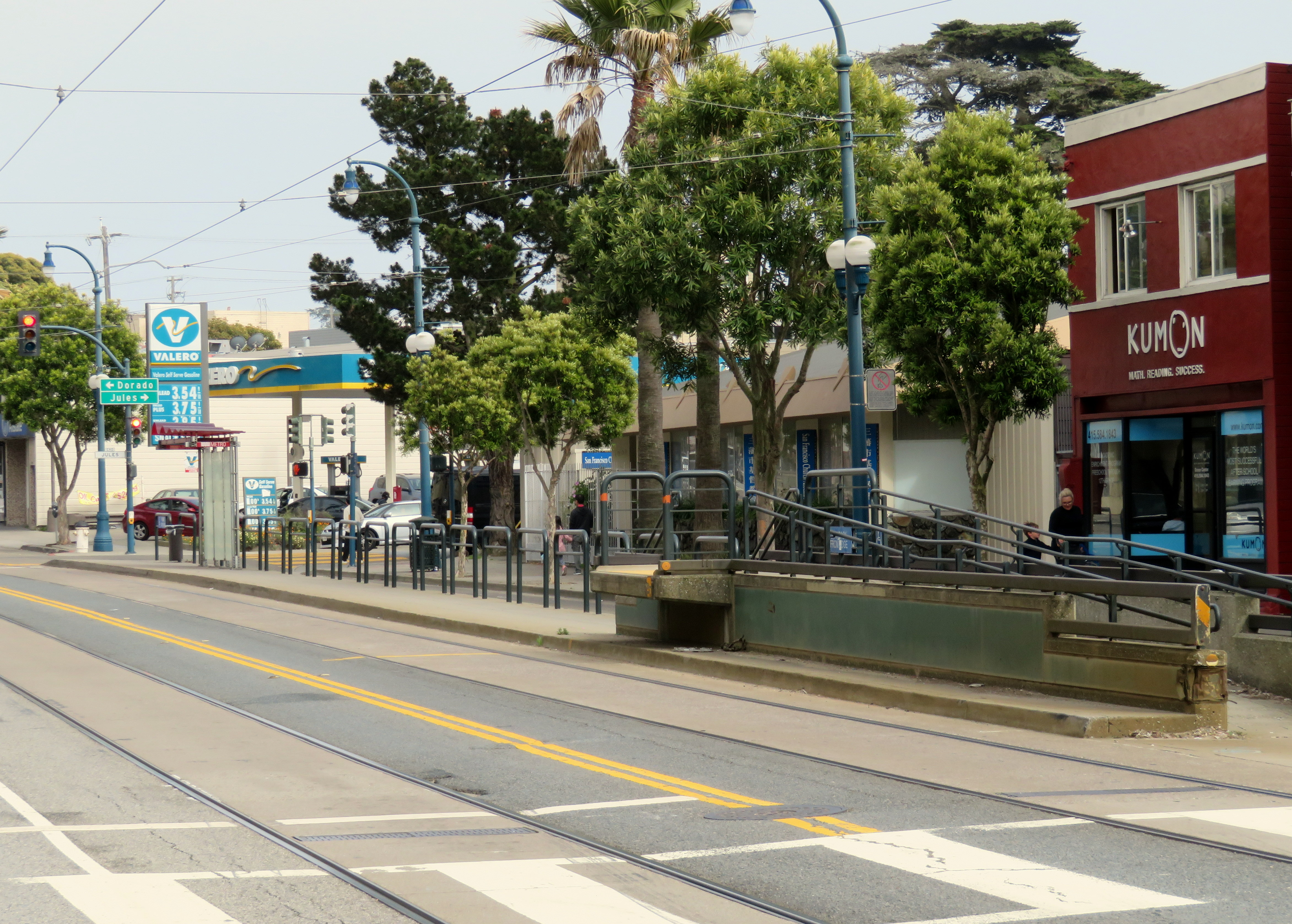 Outbound platform at Ocean and Jules in May 2018